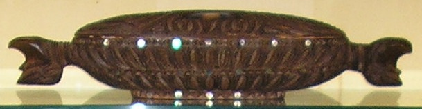 Waka-huia (feather box) carved by Inia Te Wiata and presented to The Worshipful Company of Butchers by Sir Thomas L Macdonald KCMG upon his retirement as High Commissioner for New Zealand in 1968.